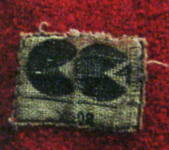 Label from Utility Clothing on display at the Bury Art Museum. From a red coat also on display, formerly owned by Mona Roberts. Board of Trade logo CC41. Designed by Reginald Shipp.